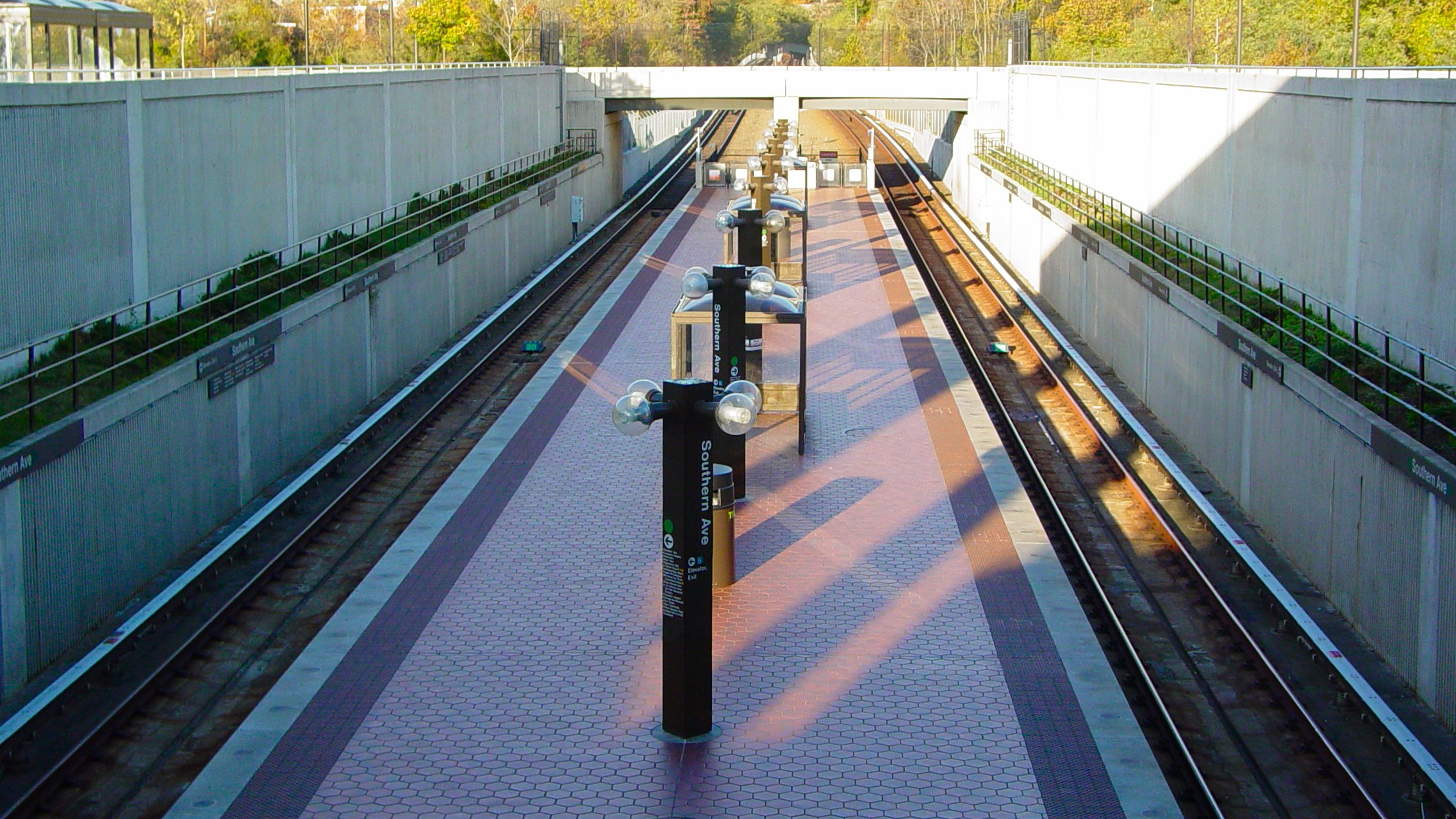 Southern Avenue platform as seen from the mezzanine, facing outbound direction.